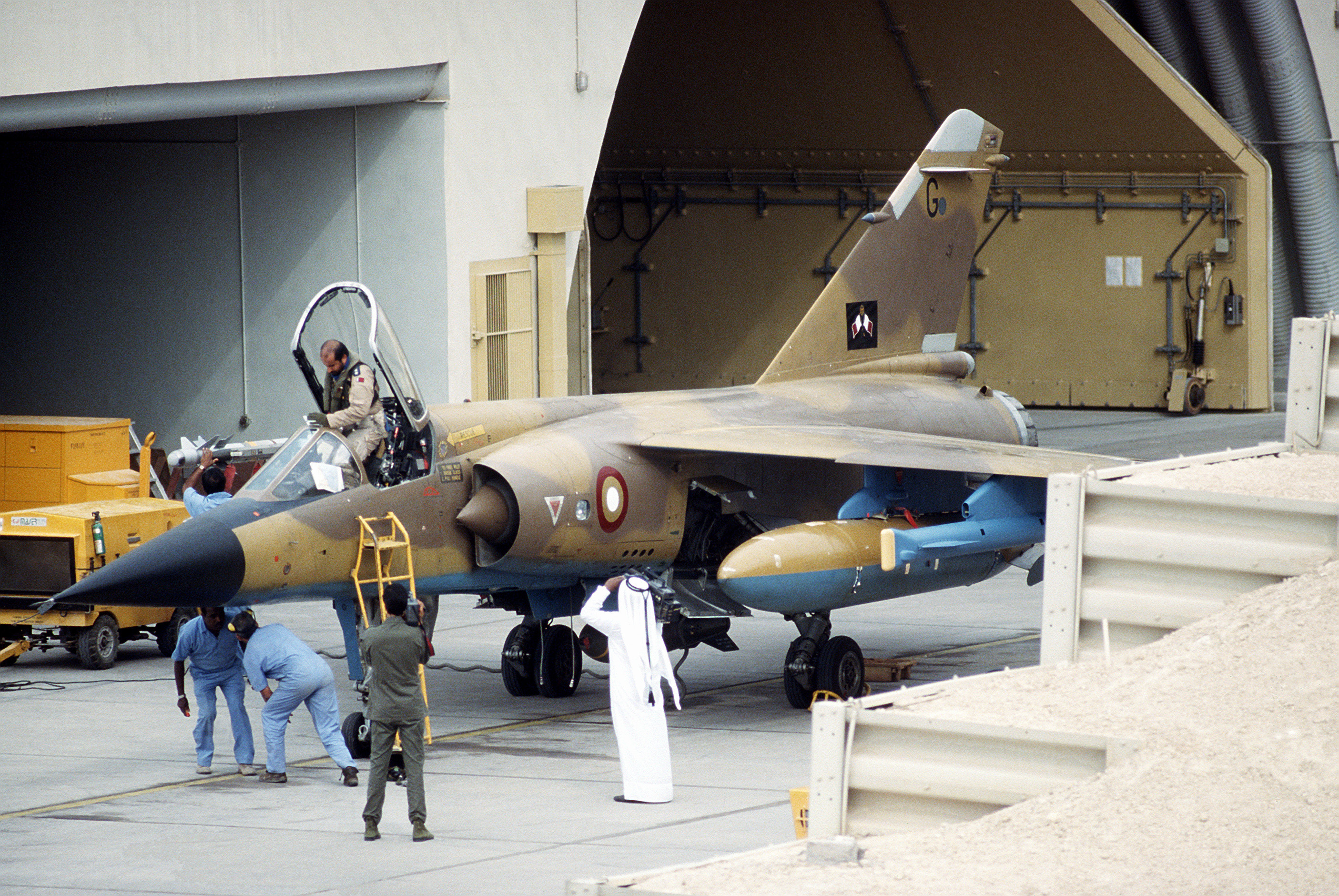 A pilot with the air force of Qatar performs a preflight check on his Mirage F1EDA aircraft prior to taking off on a mission during Operation Desert Storm.